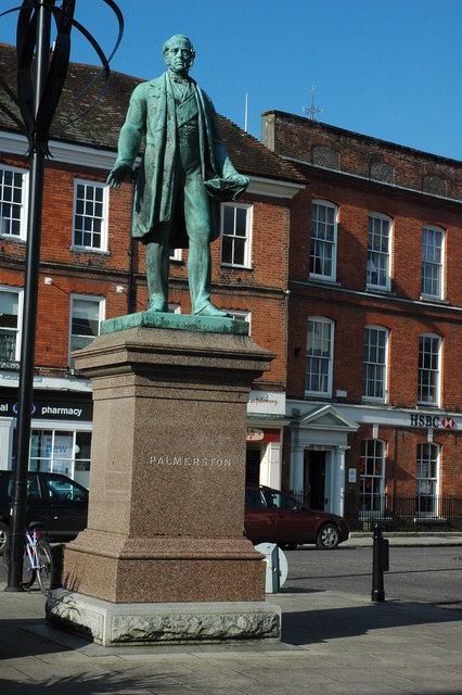 Statue of Lord Palmerston, Romsey Statue of 19th century prime minister Lord Palmerston on the Market Place in Romsey.